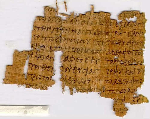 Papyrus 86 verso